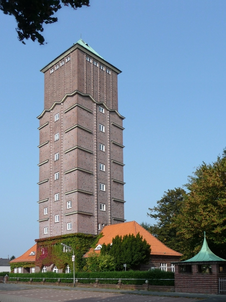 Watertower in Bremen-Blumenthal